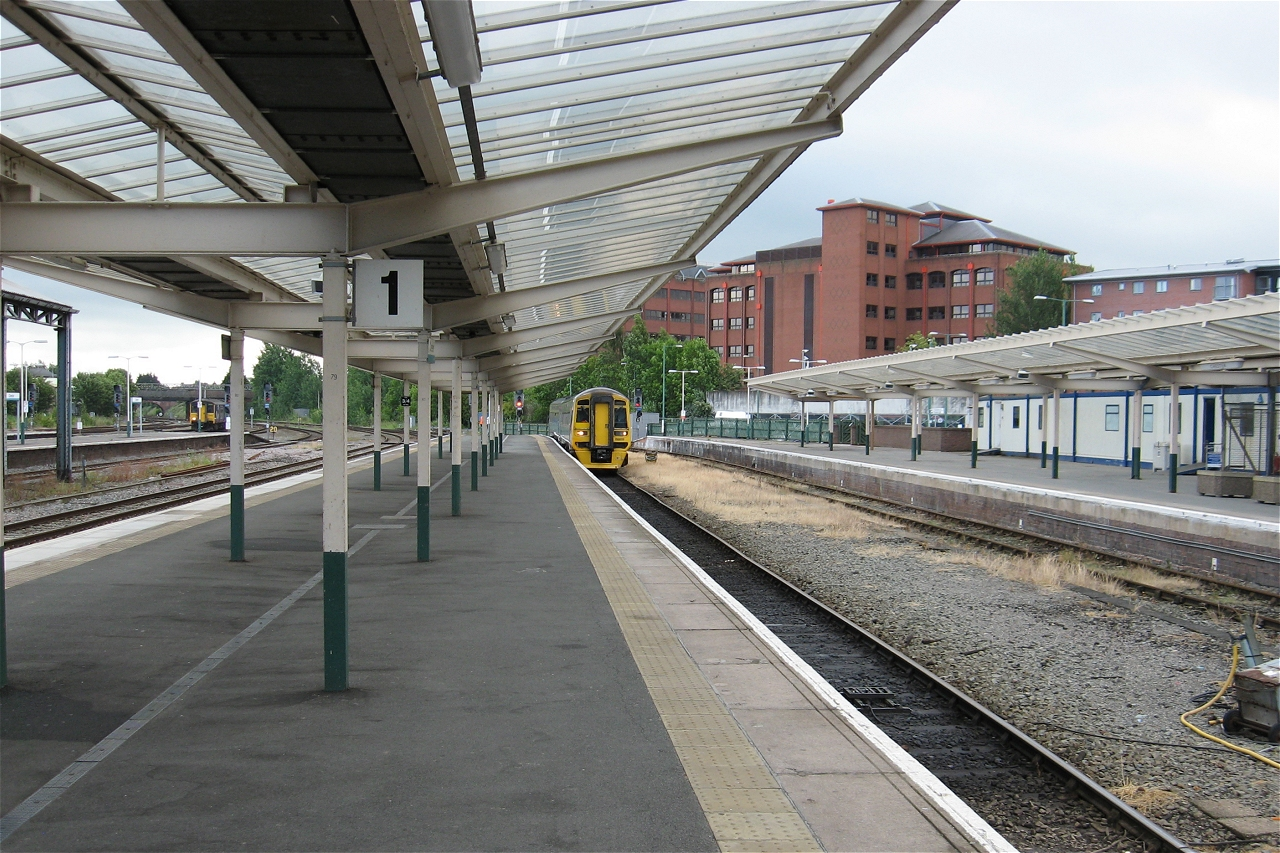 Platform number one at Chester Train Station. With 158833 arriving as the 0845 service from Crewe.